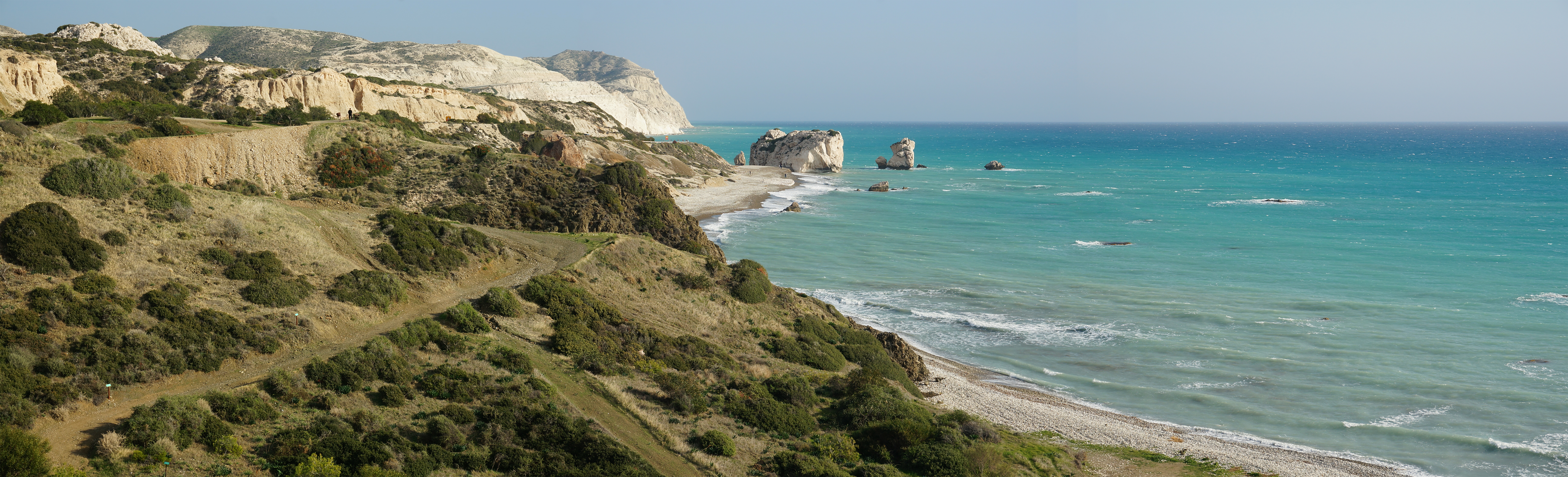 Aphrodite's Rock (Petra tou Romiou) on the coast in Paphos, western Cyprus.